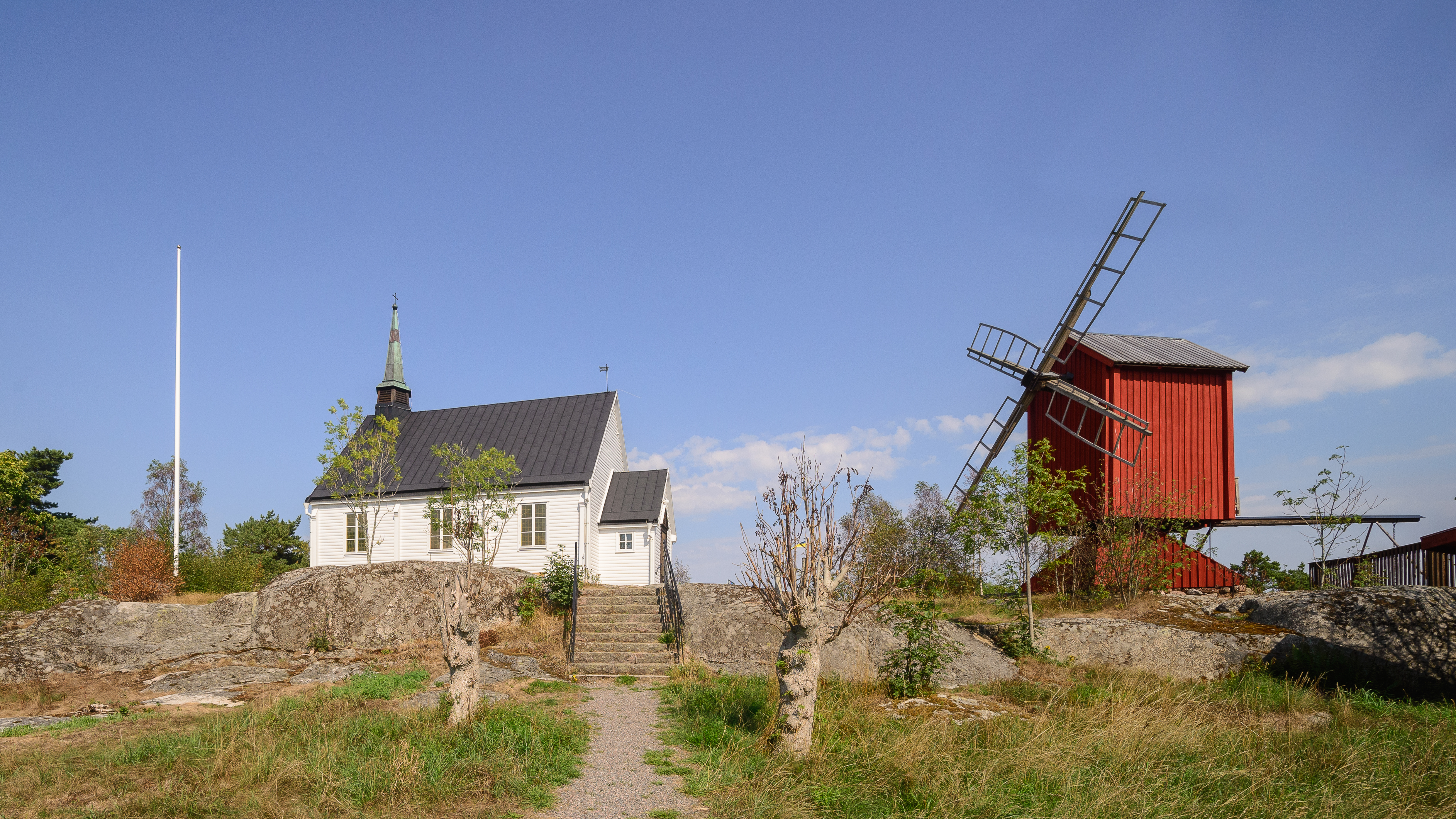 Arholma kyrka (church). Arholma, Stockholm Archipelago.